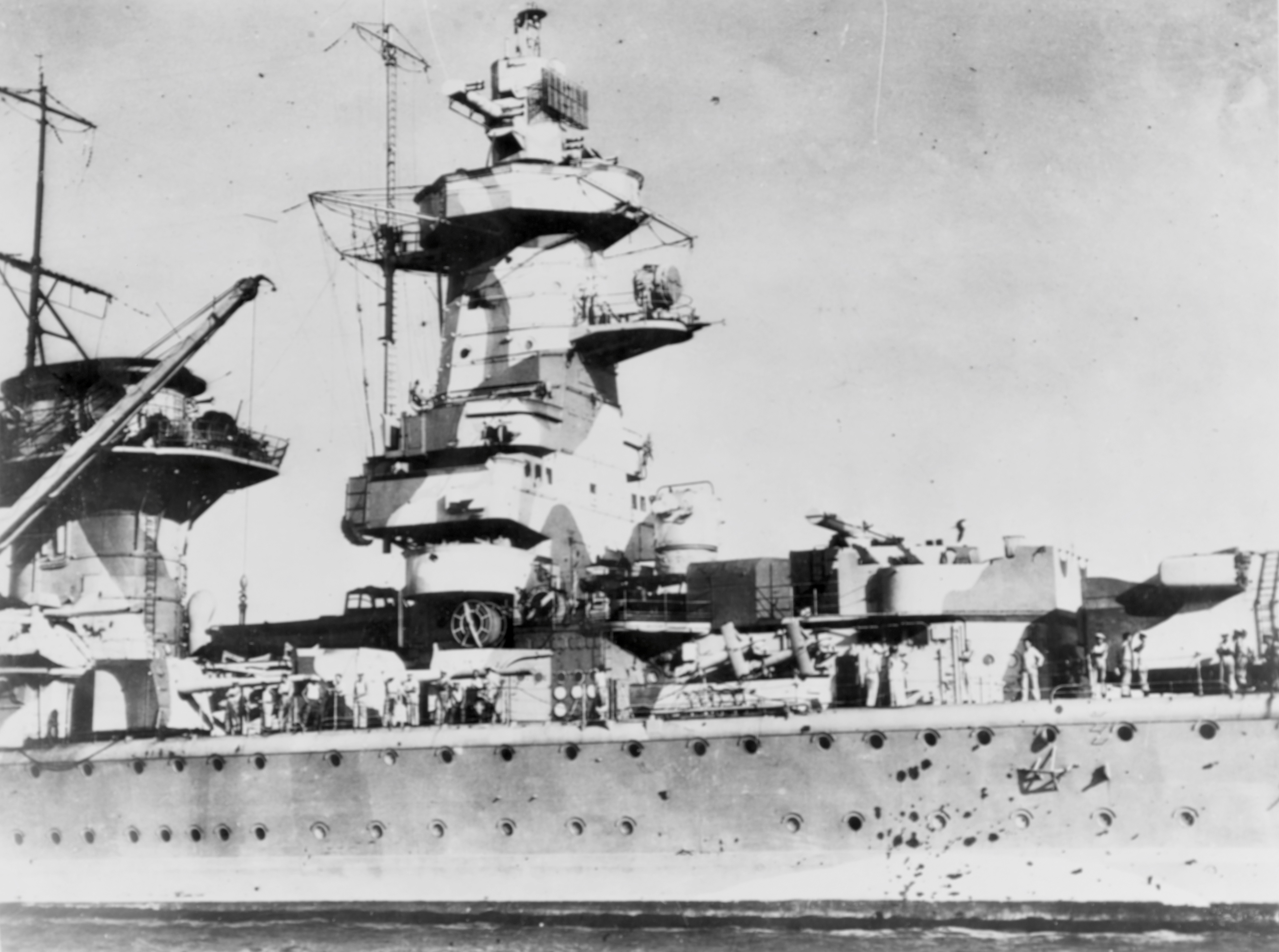 Admiral Graf Spee (German Armored Ship, 1936) View of the ship's forward superstructure, starboard side, taken while she was off Montevideo, Uruguay in mid-December 1939, following the Battle of the River Plate. Note the shell fragment scars in her side plating, and the antenna of a "Seetakt" radar mounted on the face of her main battery gun director (top center).